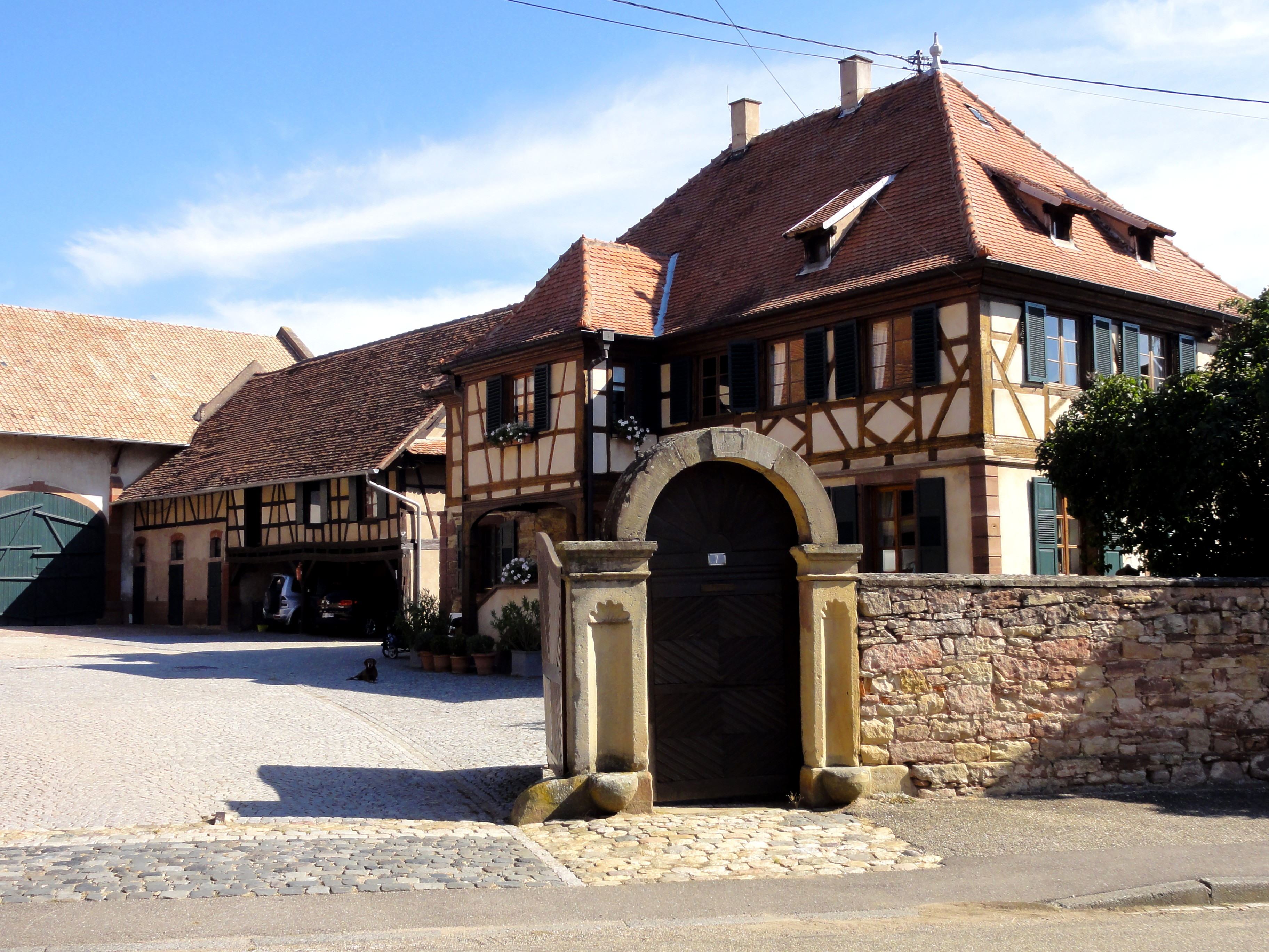 Alsace, Bas-Rhin, Hurtigheim, Ferme (XVIIIe), 7 rue Principale. .